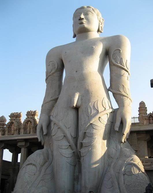 Bahubali practicing meditation in standing Kayotsarg posture.